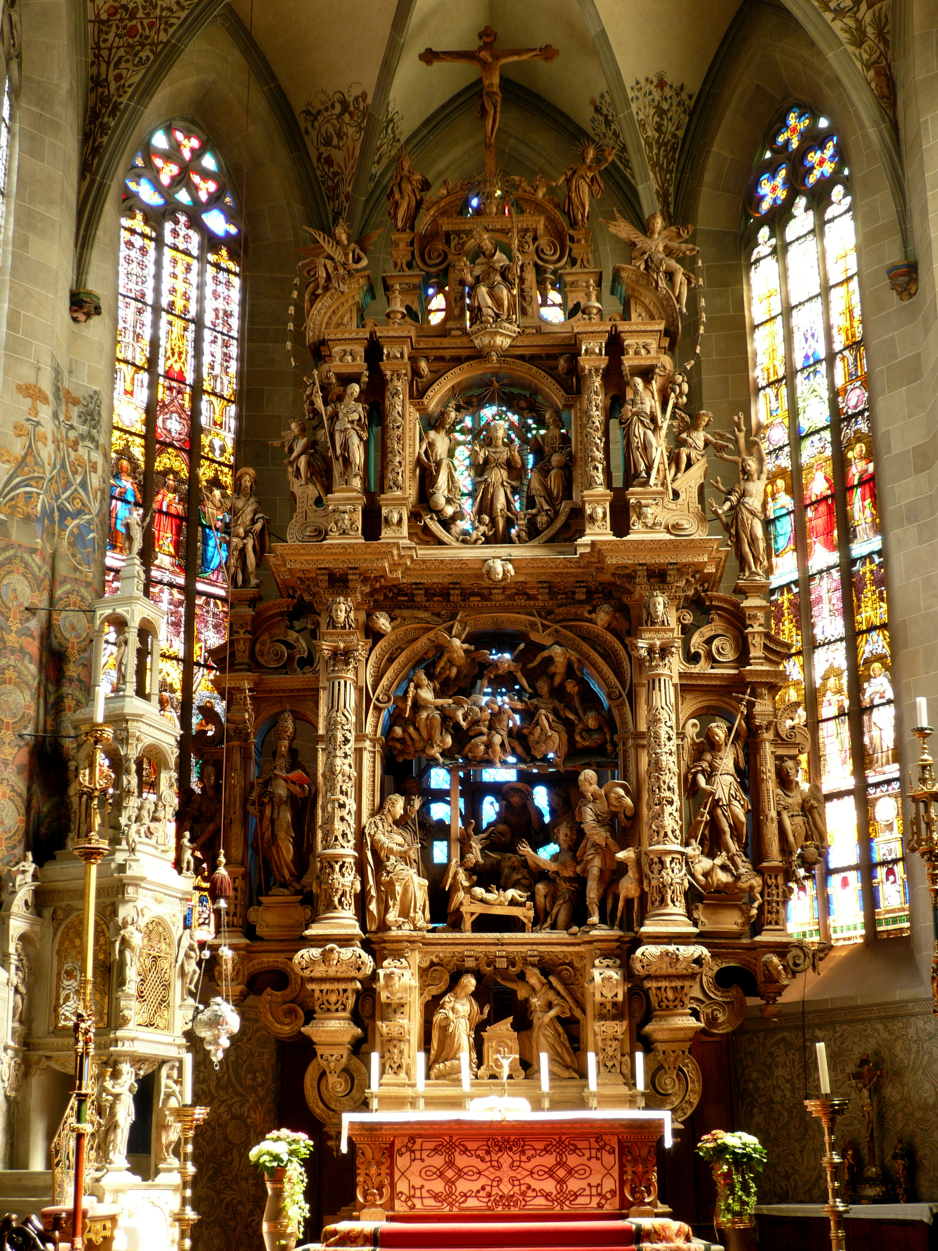 Altar of church St. Nikolaus at Ueberlingen